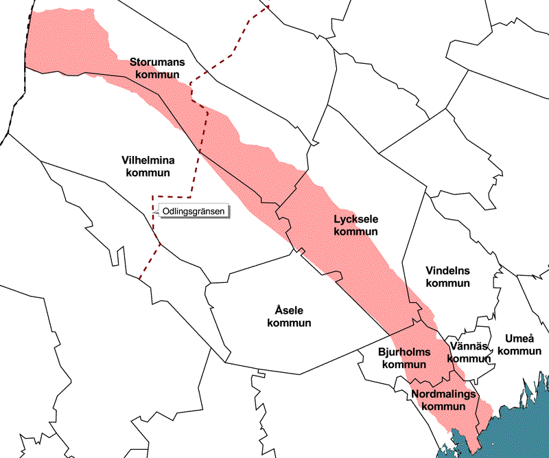 The area used by Vapstens sameby in Västerbottens län, Sweden. All of the area has not been formally decided.